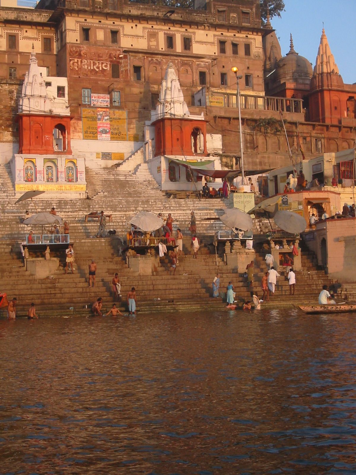 Early morning view of ghats in Varanasi.